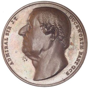 Medal commemorating Admiral Sir John Duckworth (1748-1817). Obverse: Sir J. Duckworth's head, (left). Legend: 'ADMIRAL SIR J. T. DUCKWORTH BART G. C. B.'